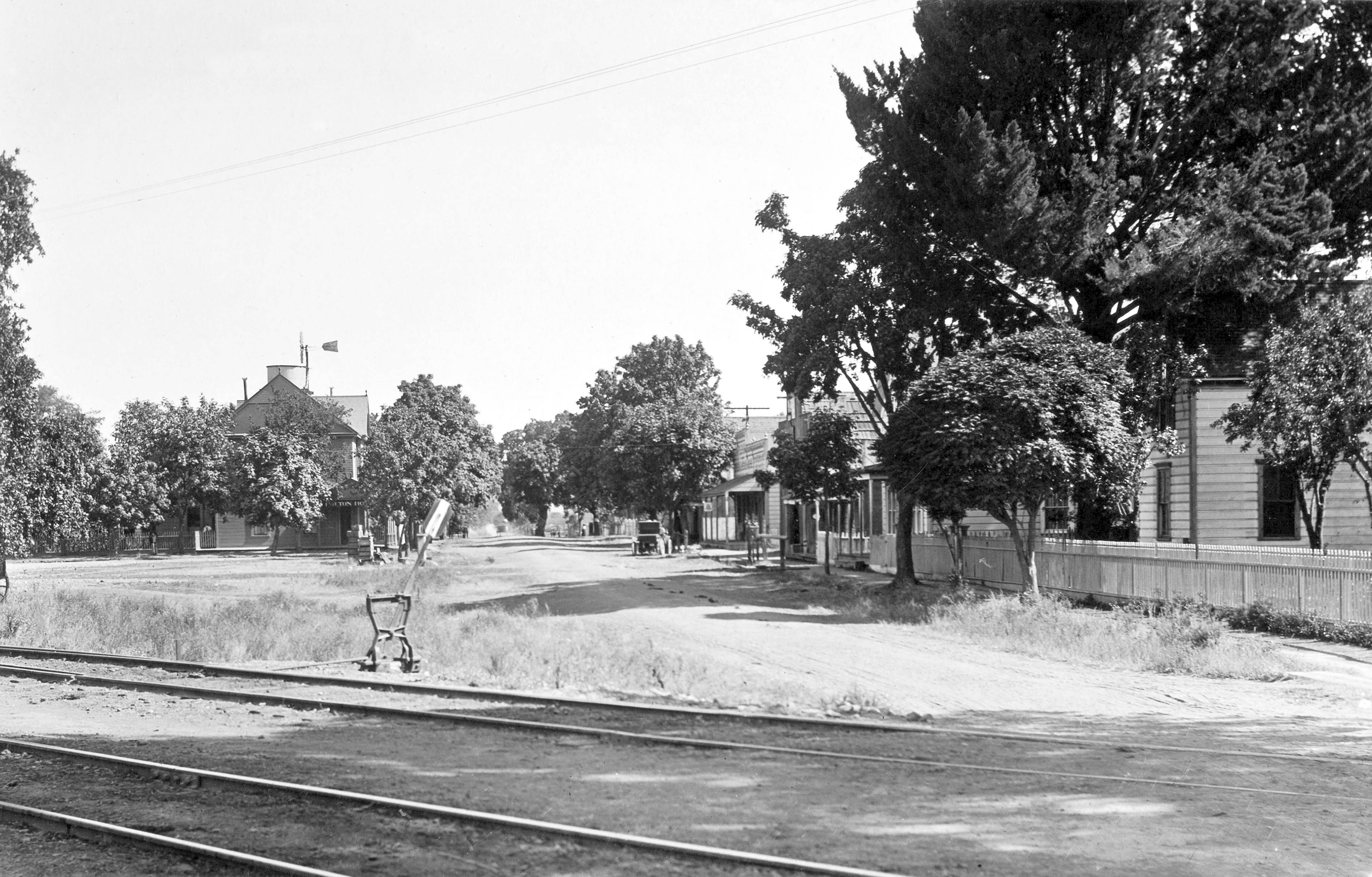 Main Street looking north, Fulton, California.